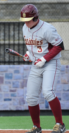 John Nogowski of Florida State strikes out during a 2013 game against Virginia Tech at English Field